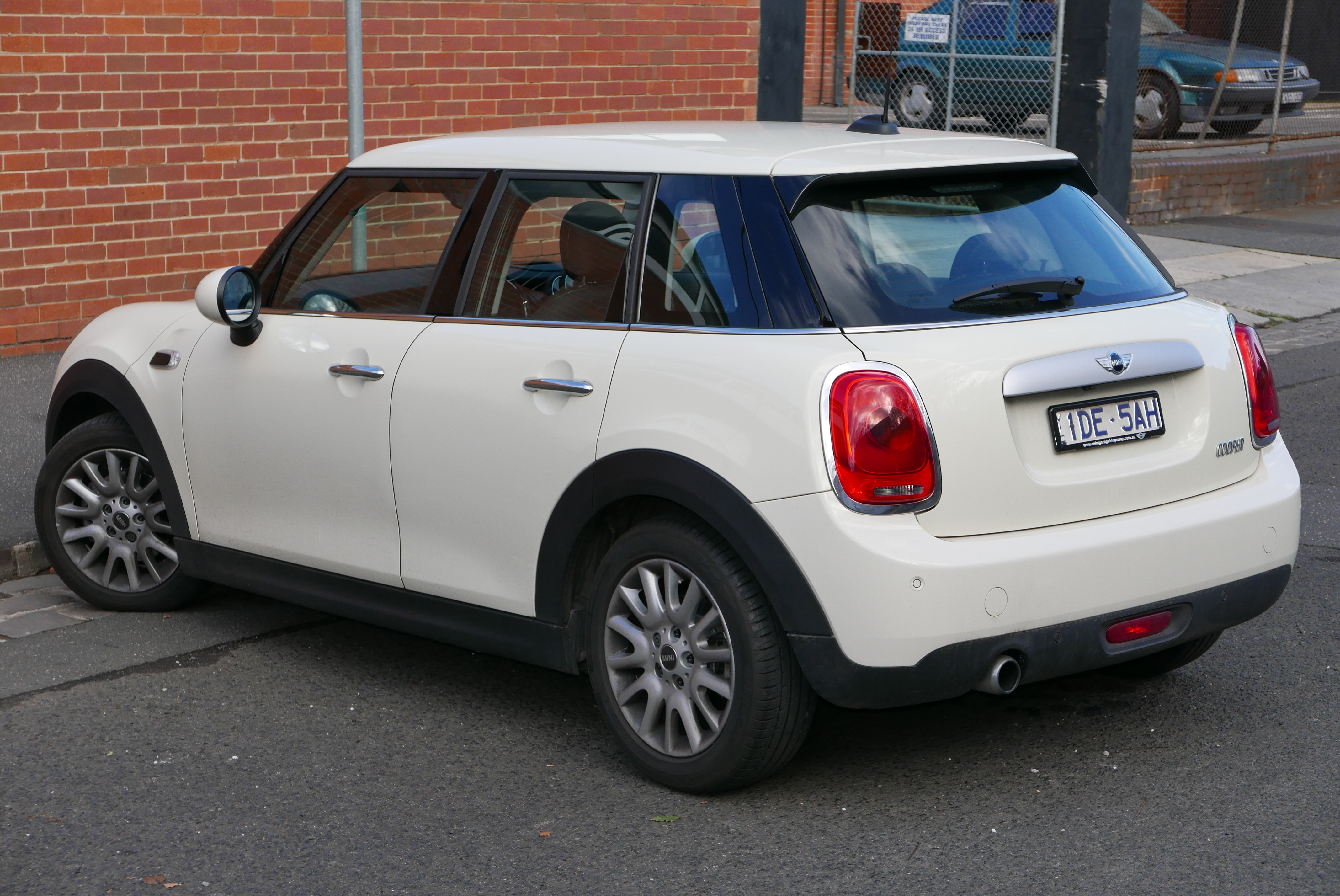 2015 Mini Hatch (F55) Cooper 5-door hatchback. Photographed in Abbotsford, New South Wales, Australia. Vehicle registration enquiry resultsJurisdictionVictoriaRegistration1DE5AHChassis codeWMWXS520X02B40080Engine code33849210Compliance date2015-05Year of manufacture2015